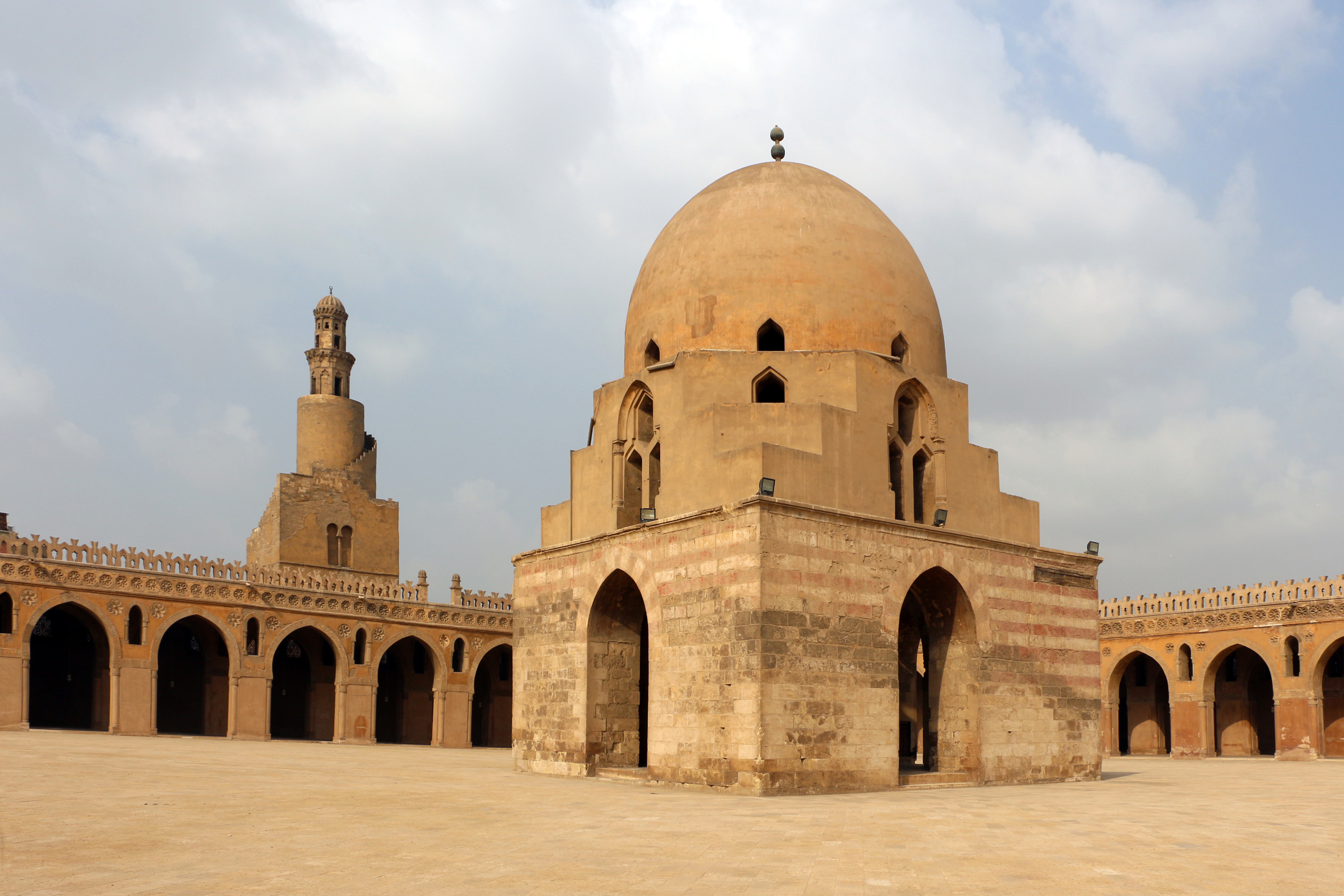 Mosque of Ibn Tulun